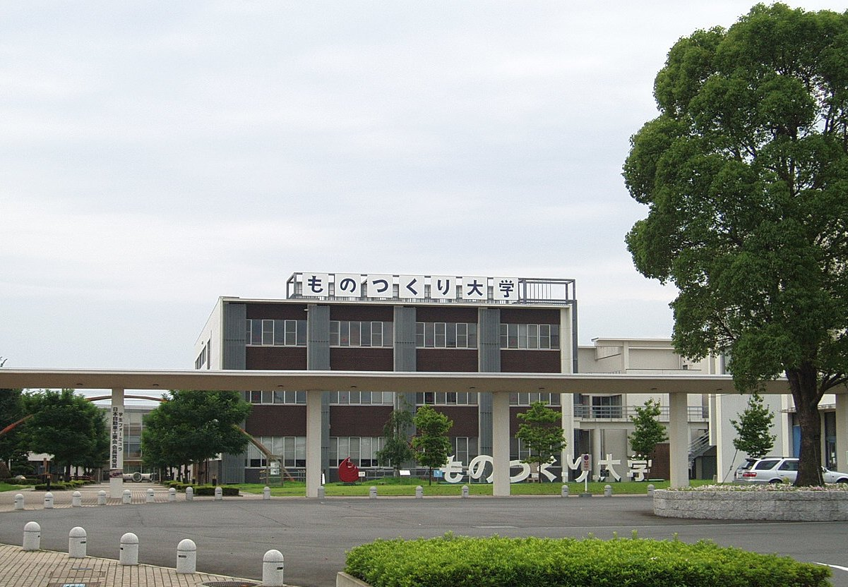 The main entrance of the Institute of Technologists, located in Gyoda, Saitama Prefecture, Japan.